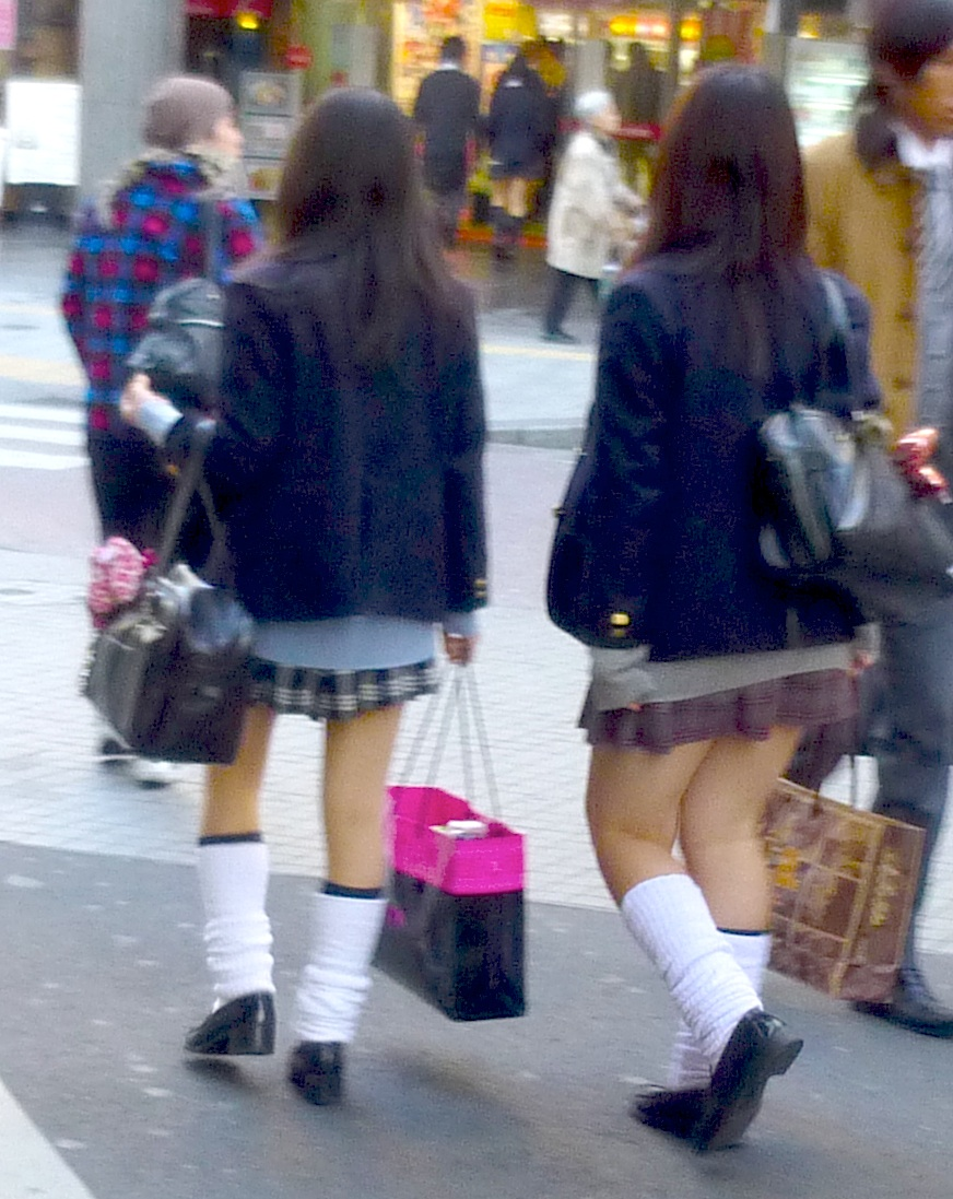 Loose socks, a fashion item you don't see that often anymore these days